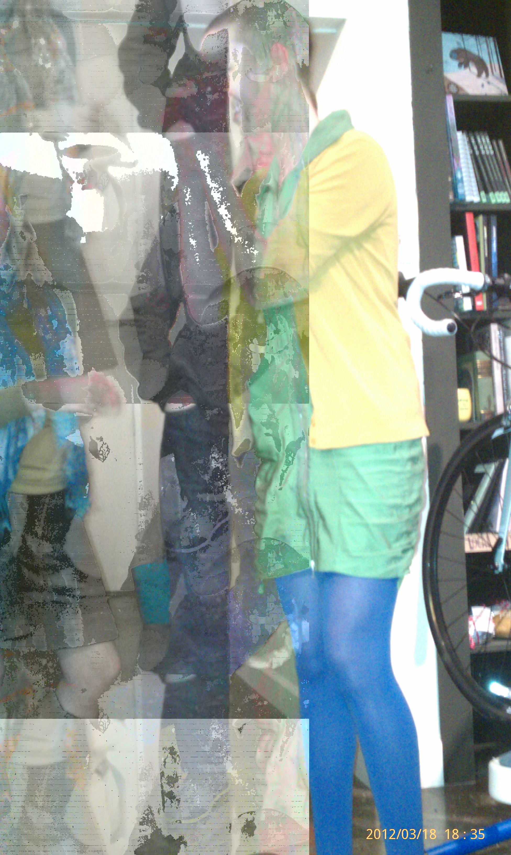 An intriguing digital artifact courtesy of an HTC Evo 4G.